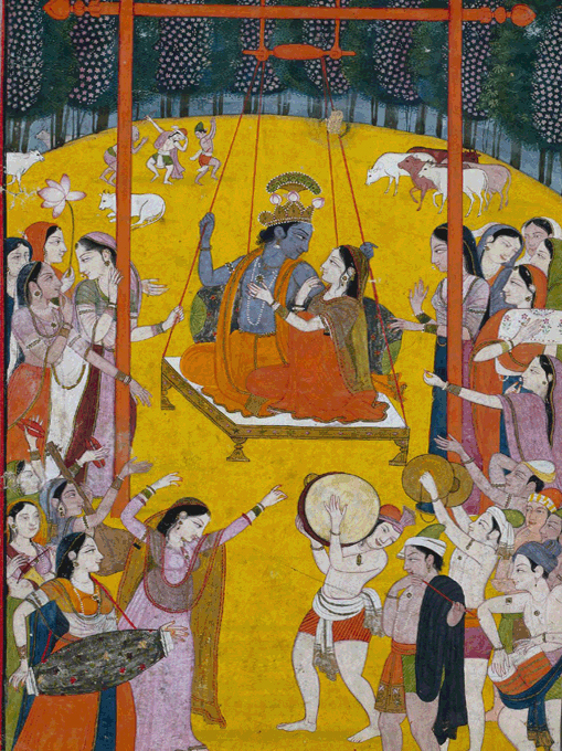 Jhulan Pastime - Hindola-Raga Pahari, Kangra, c. 1790